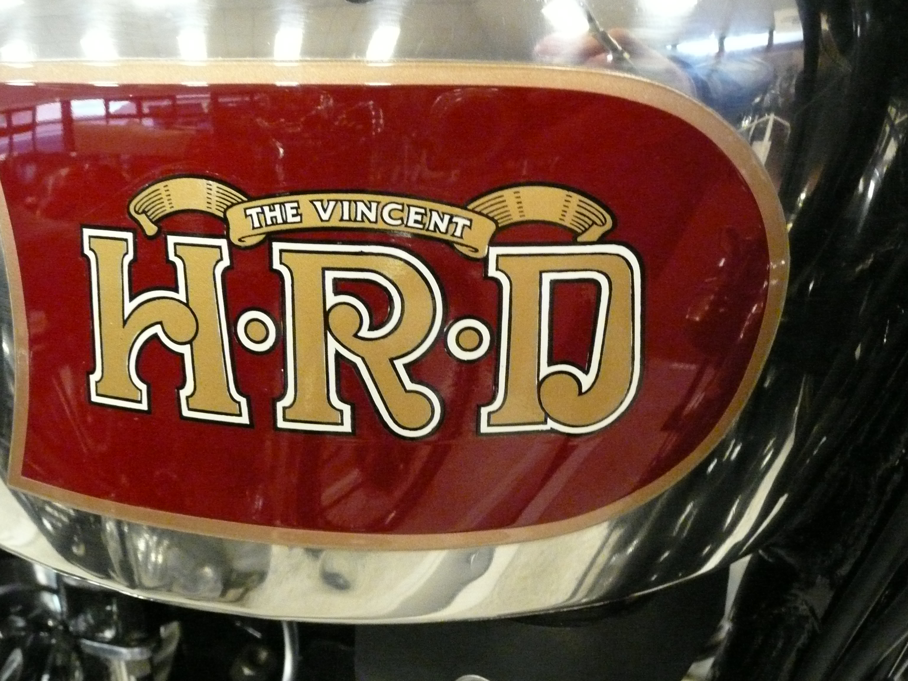 HRD Motorcycle Badge